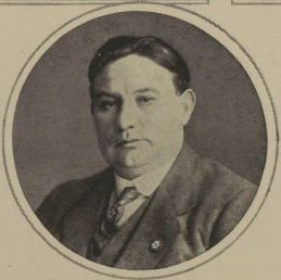 Ernest Bevin, National Organiser of the Dock, Wharf, Riverside and General Labourers' Union, future government minister